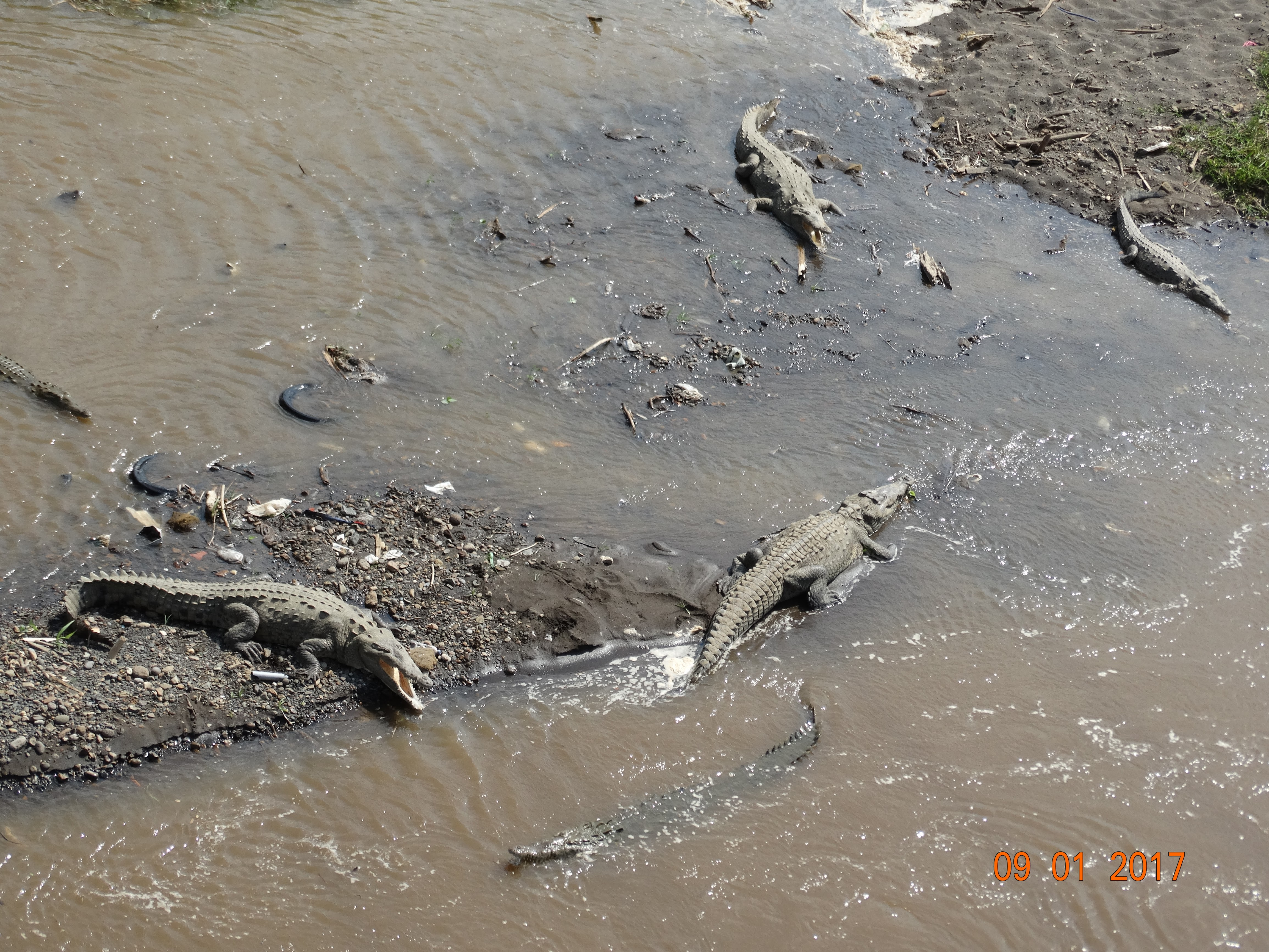 The Tárcoles River